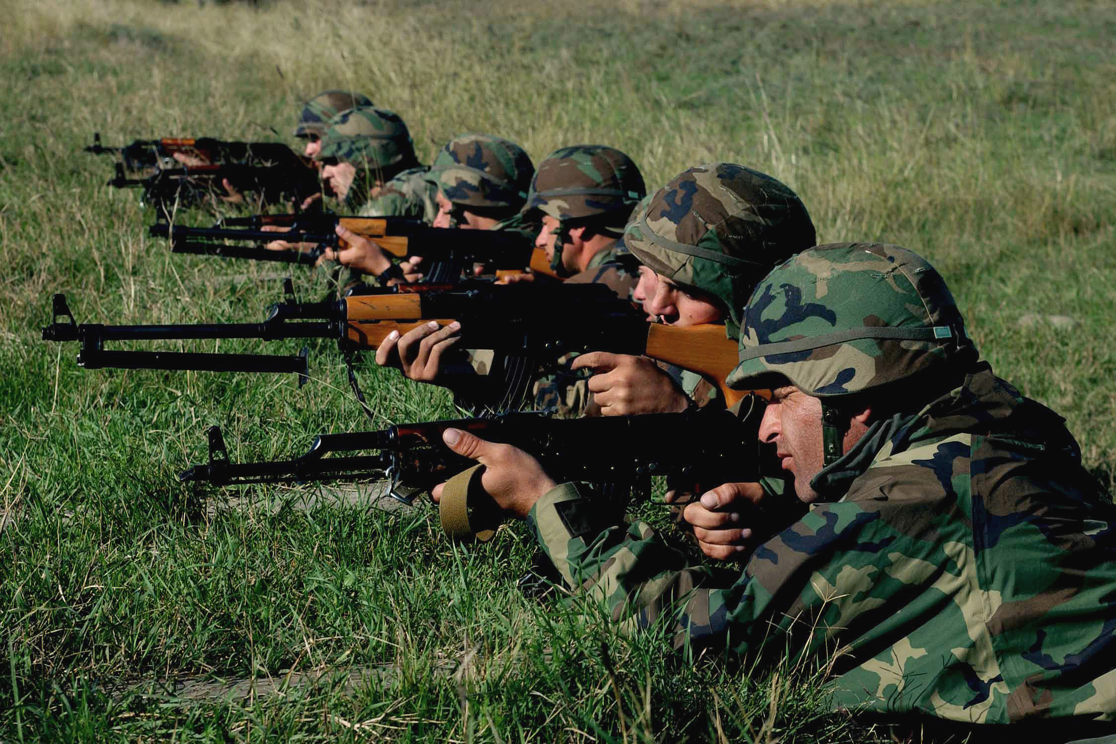 Part of the Georgian Train and Equip Program (GTEP), members of the Georgian Army fire their weapons on a live firing range during Tactical Arms training to prepare in defending their boarders against Rebels from near by Chechnya. ID: DF-SD-04-11509